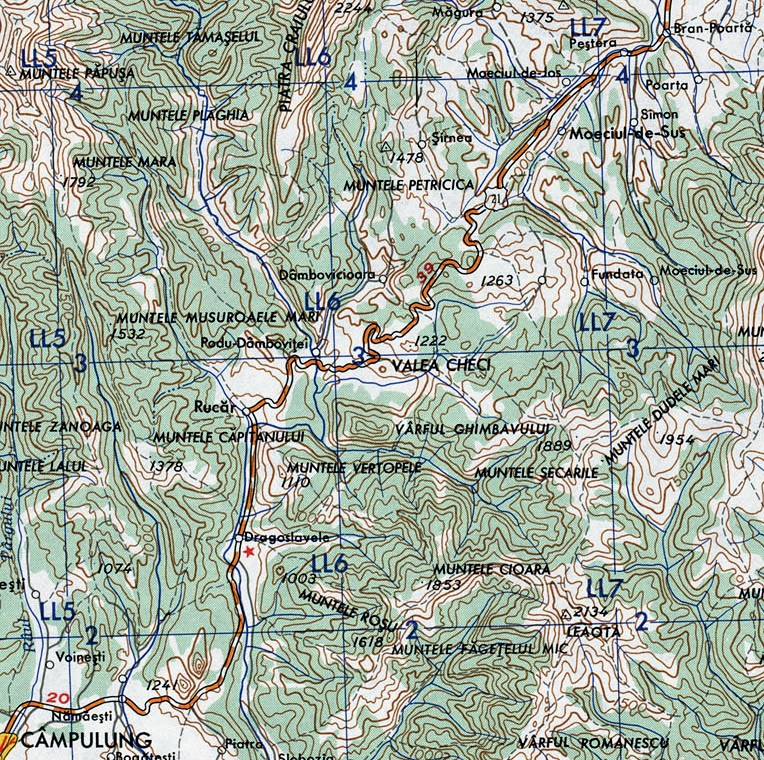 The map of Stalin Region, Romanian map of the route between Câmpulung and Bran-Poart.